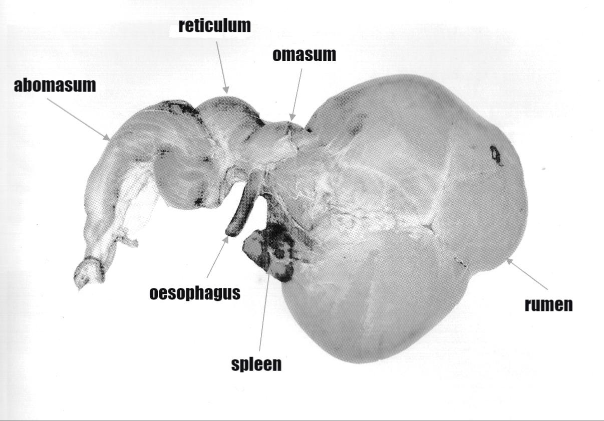 A diagram showing the four ruminant stomachs